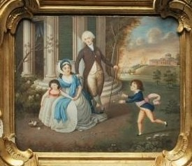 Duke Antonino Maresca and his wife Princess Anna Alexandrovna